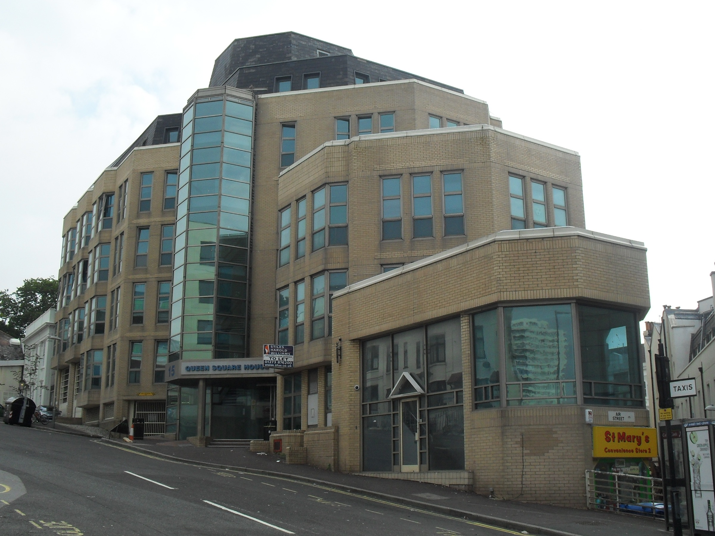 Queen Square House, Queen Square, Brighton, City of Brighton and Hove, England. An office block with integrated shop units, built in 1985–86 on the site of the former Central Free Church (demolished 1984).